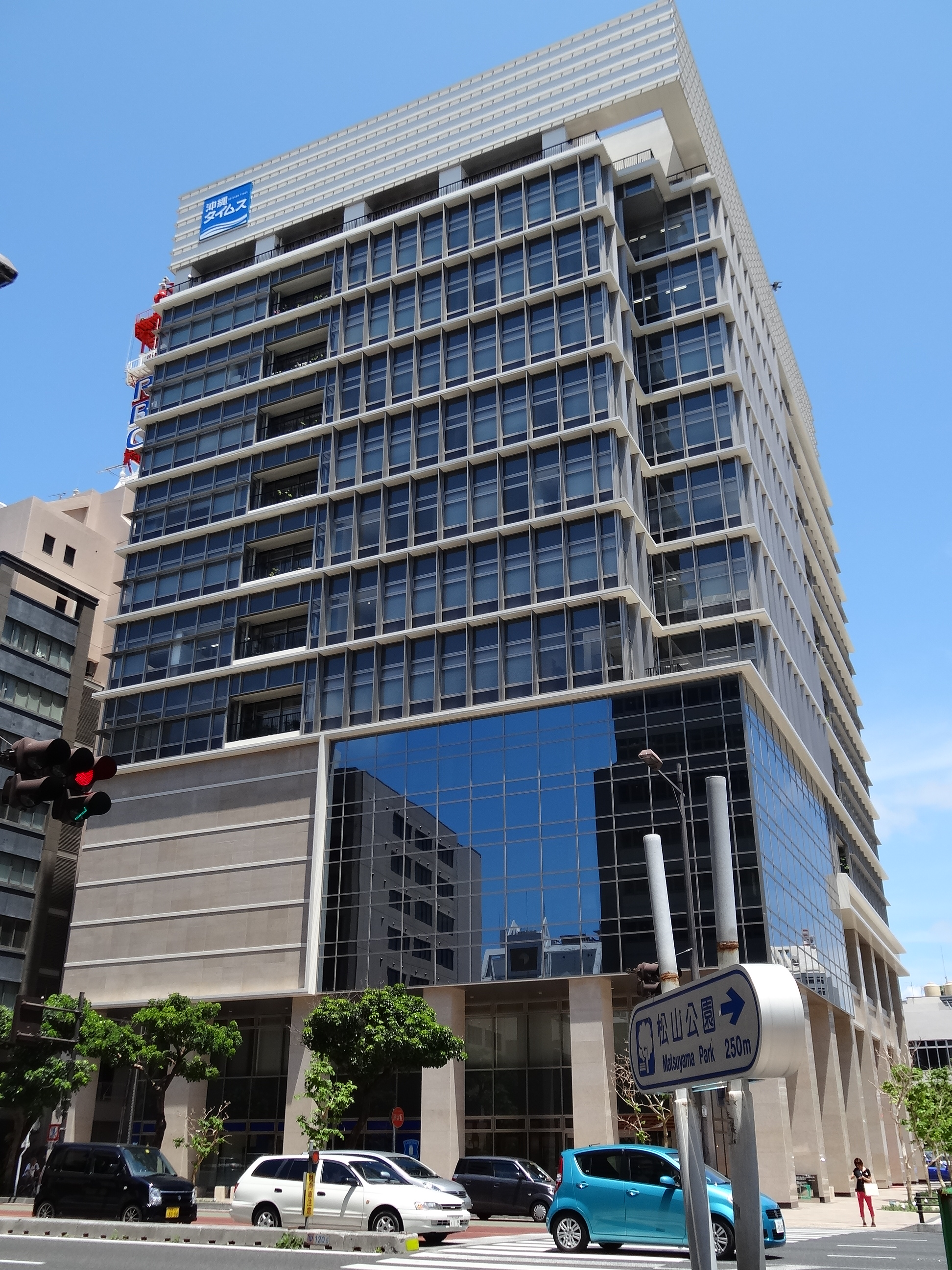 Okinawa Times Head Office (Naha City, Okinawa Prefecture, Japan)